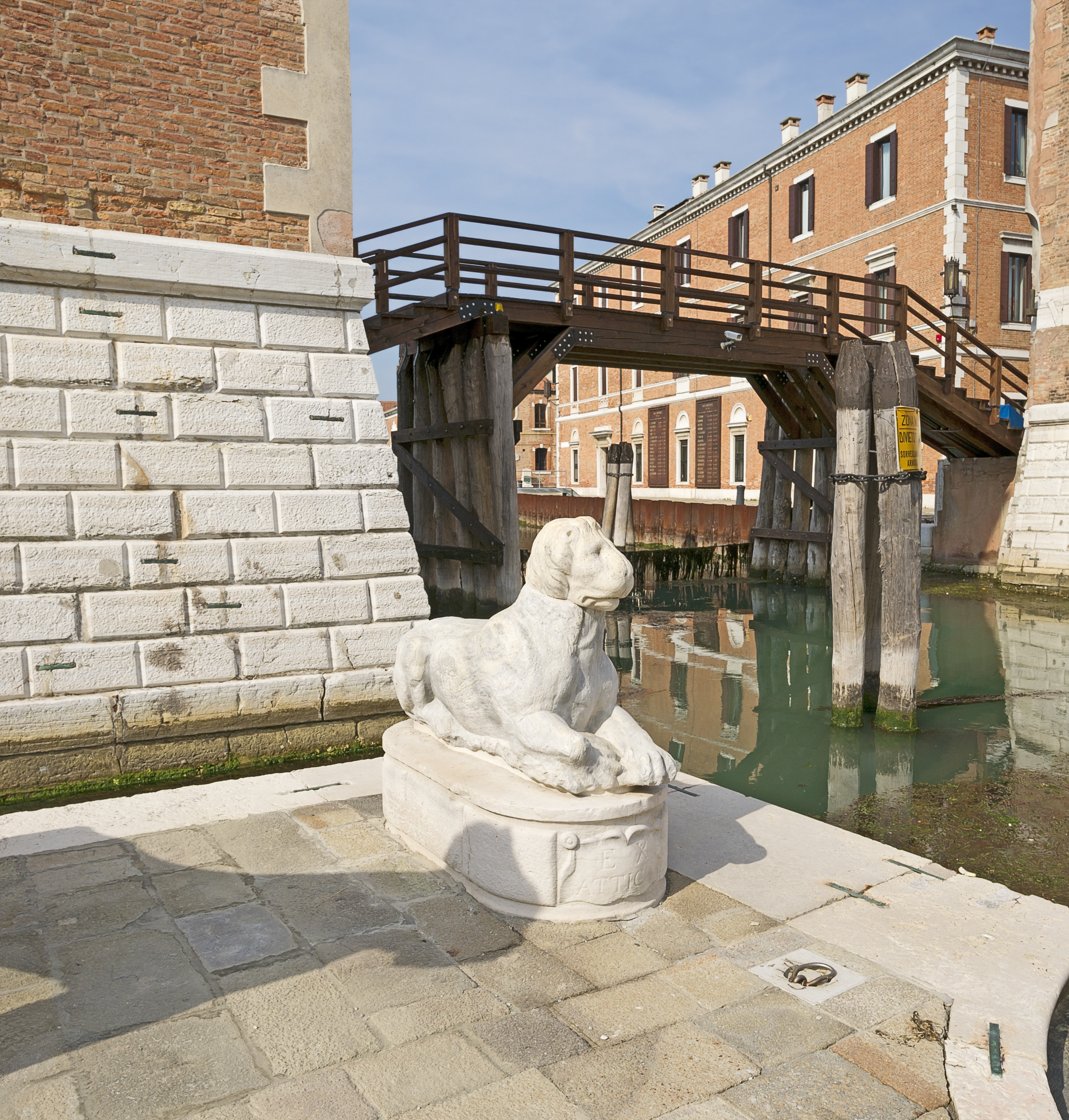 The fourth lion of the Door land the Arsenal of Venice, closest to the channel, resulting in the assembly of two sculptures whose date and provenance remain unknown. On the pedestal is inscribed: EX / ATTICIS.